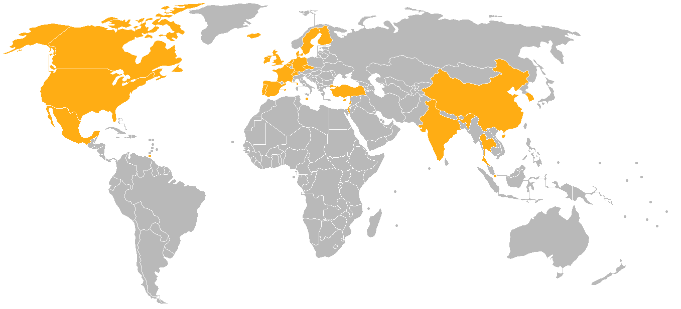 map of nations containing Ben & Jerry's retailers